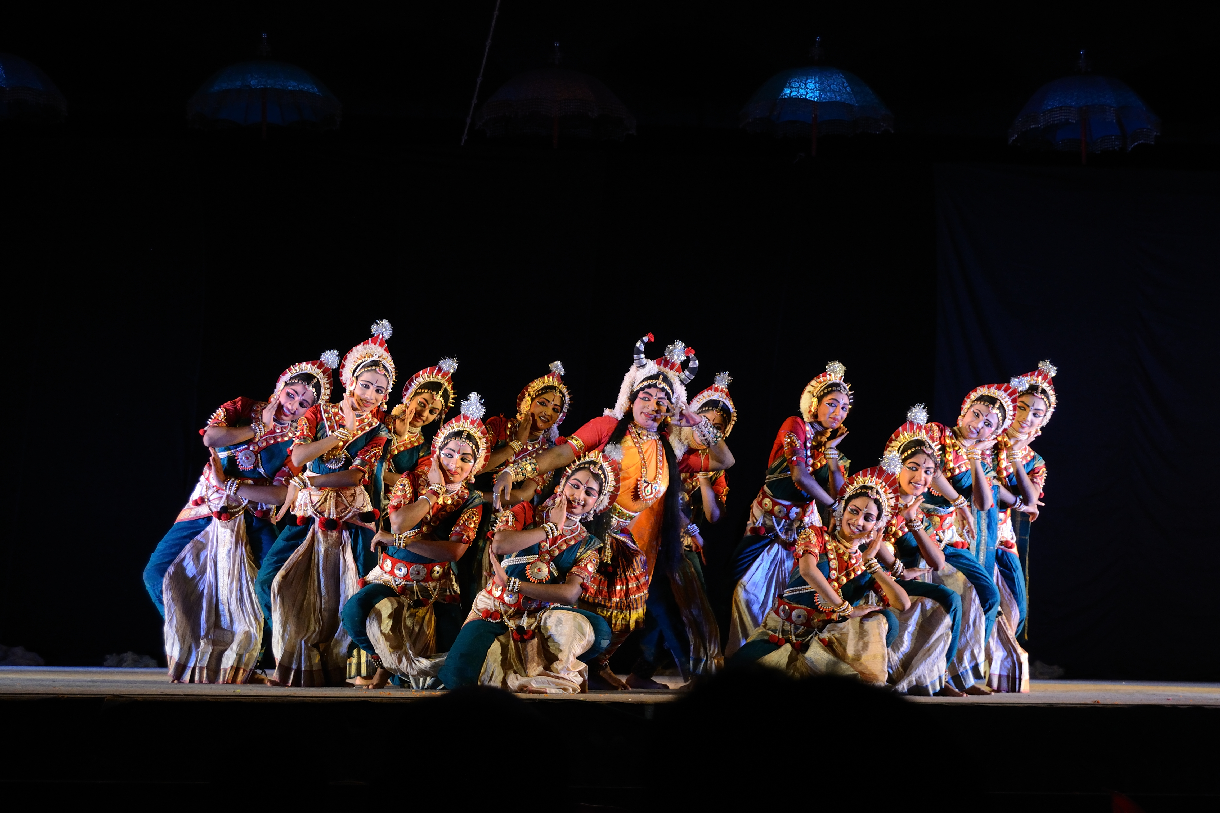 Kathakali, Folk of Kerala This photo has been taken in the country: India